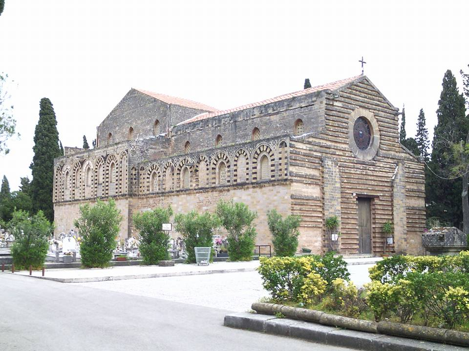 Church of the Holy Spirit, Palermo. Also known as "Church of the Vespers"